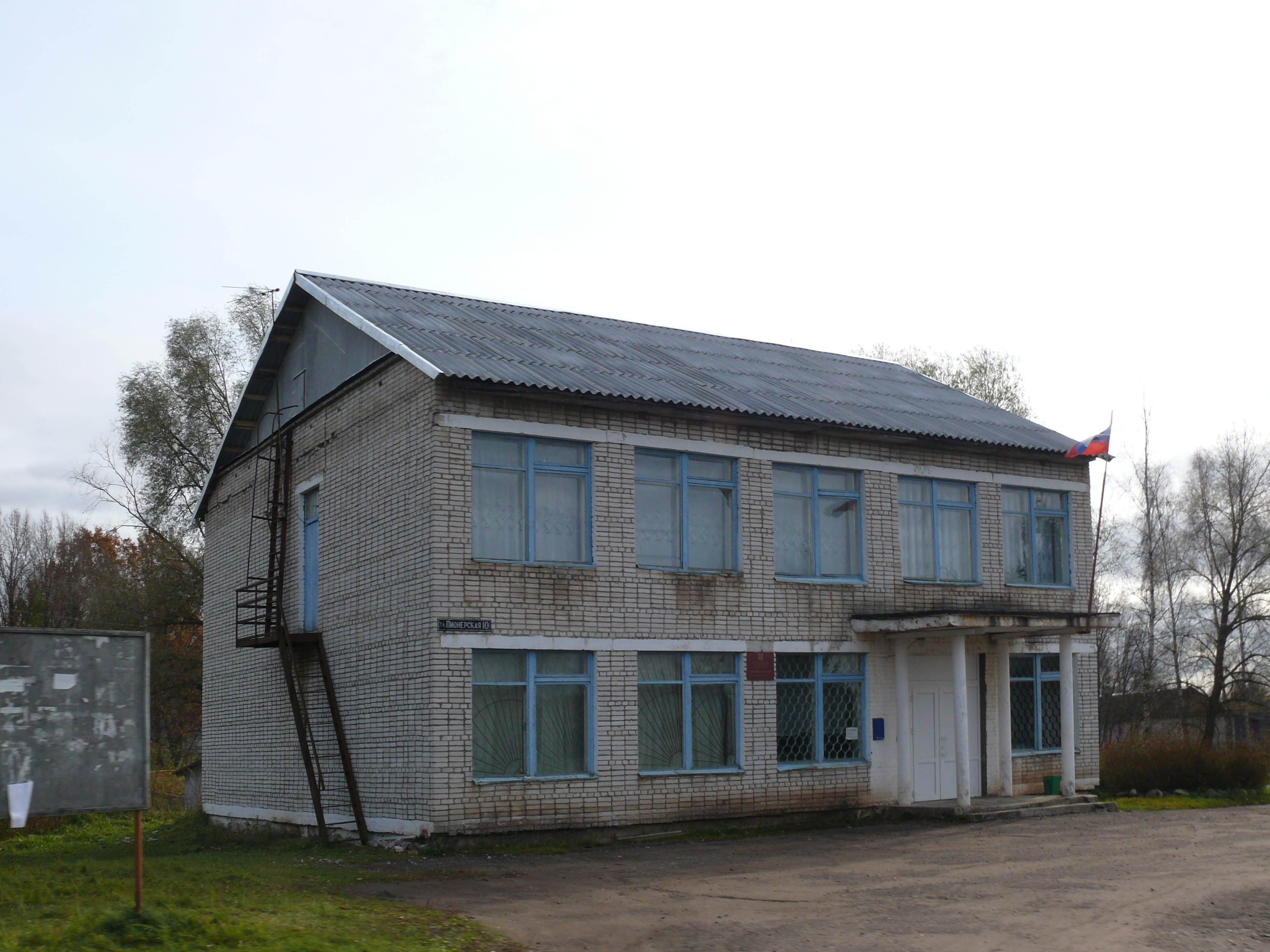 Pola village. Parfinsky district, Novgorod oblast, Russia